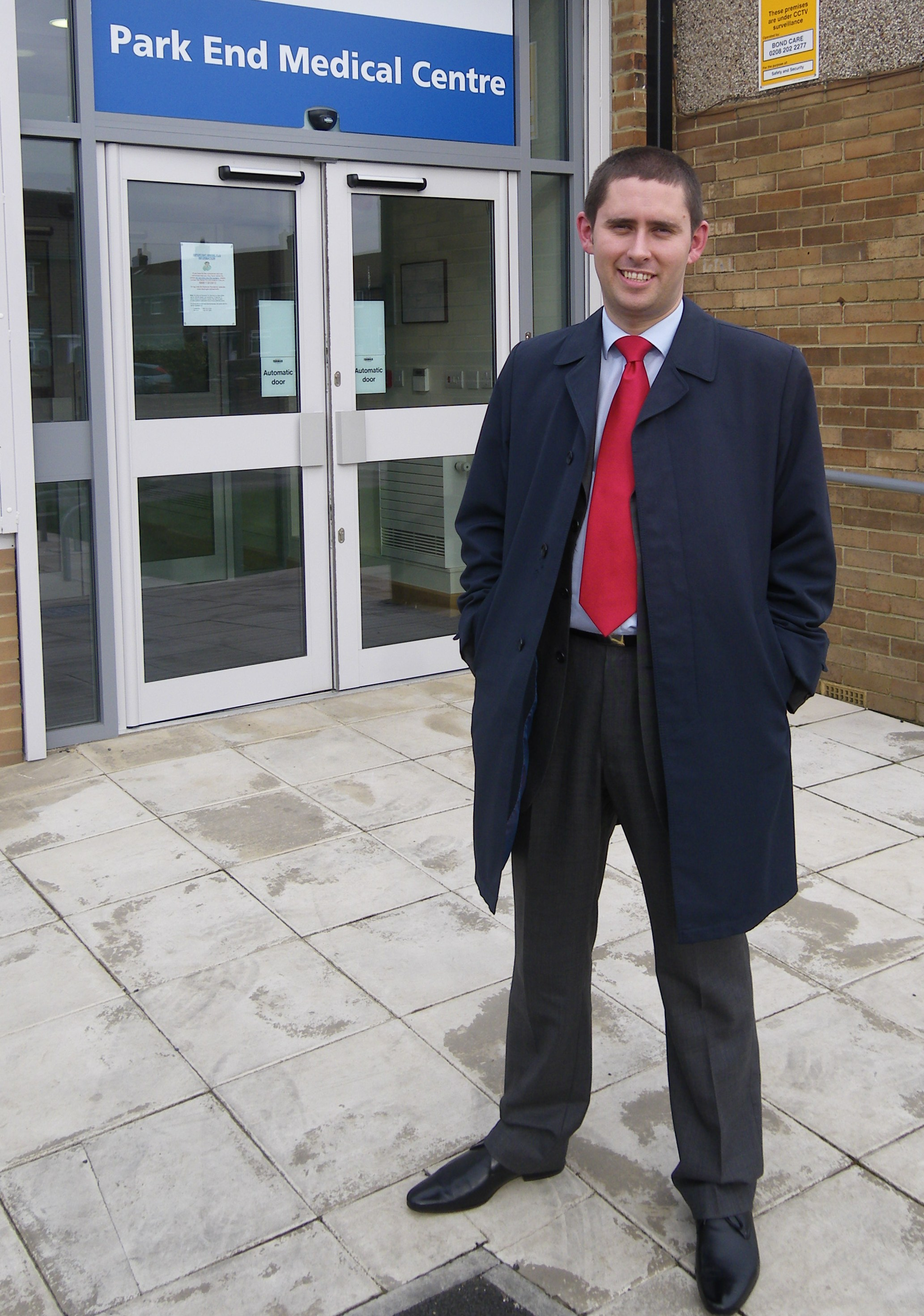 Tom Blenkinsop, Labour MP for Middlesbrough South and East Cleveland, at the medical centre at Park End, Middlesbrough.